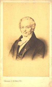 Jean-Etienne Dominique Esquirol